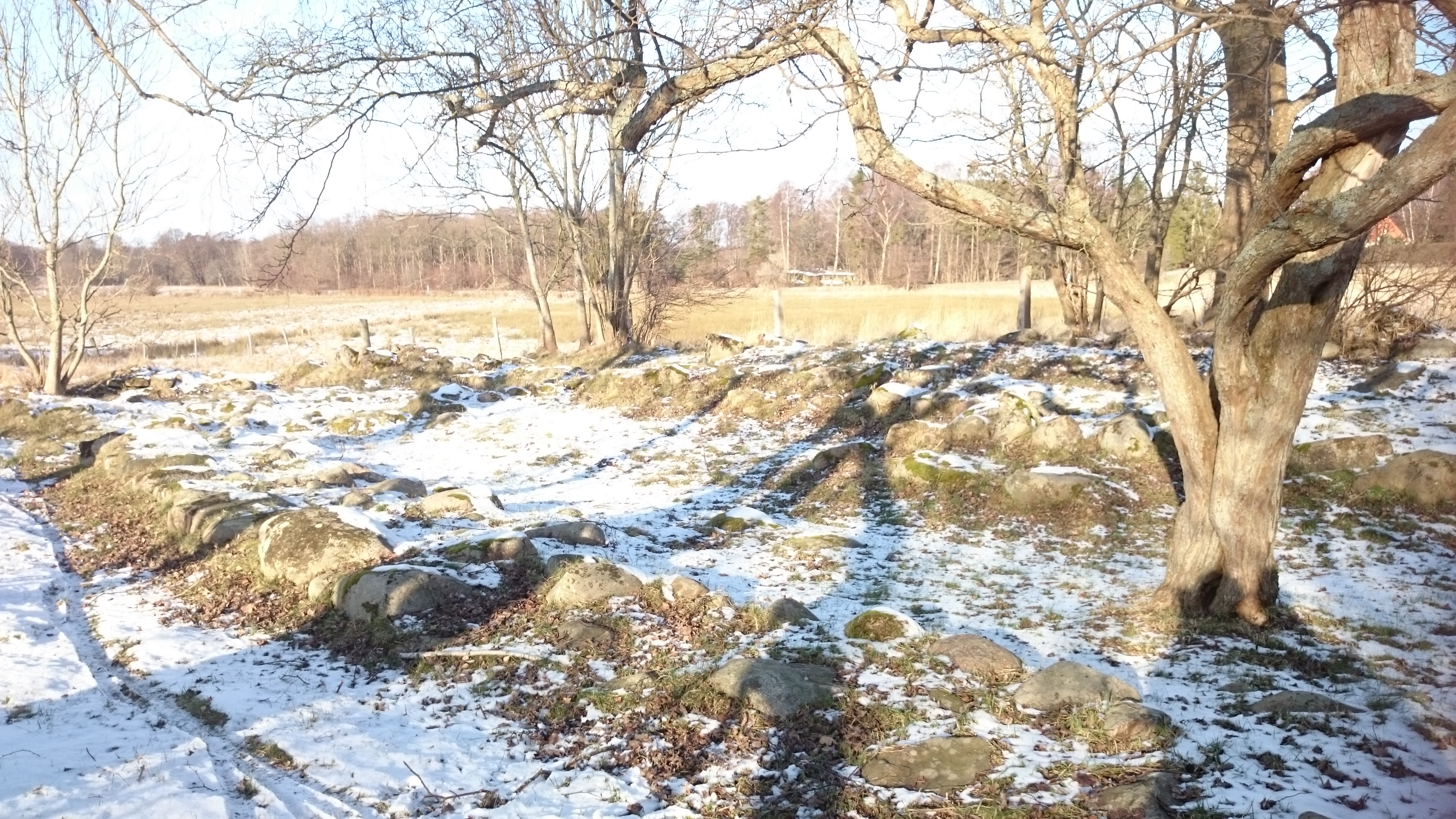 Chapel of Sct. Jakob, near Gurre Castle, Denmark.